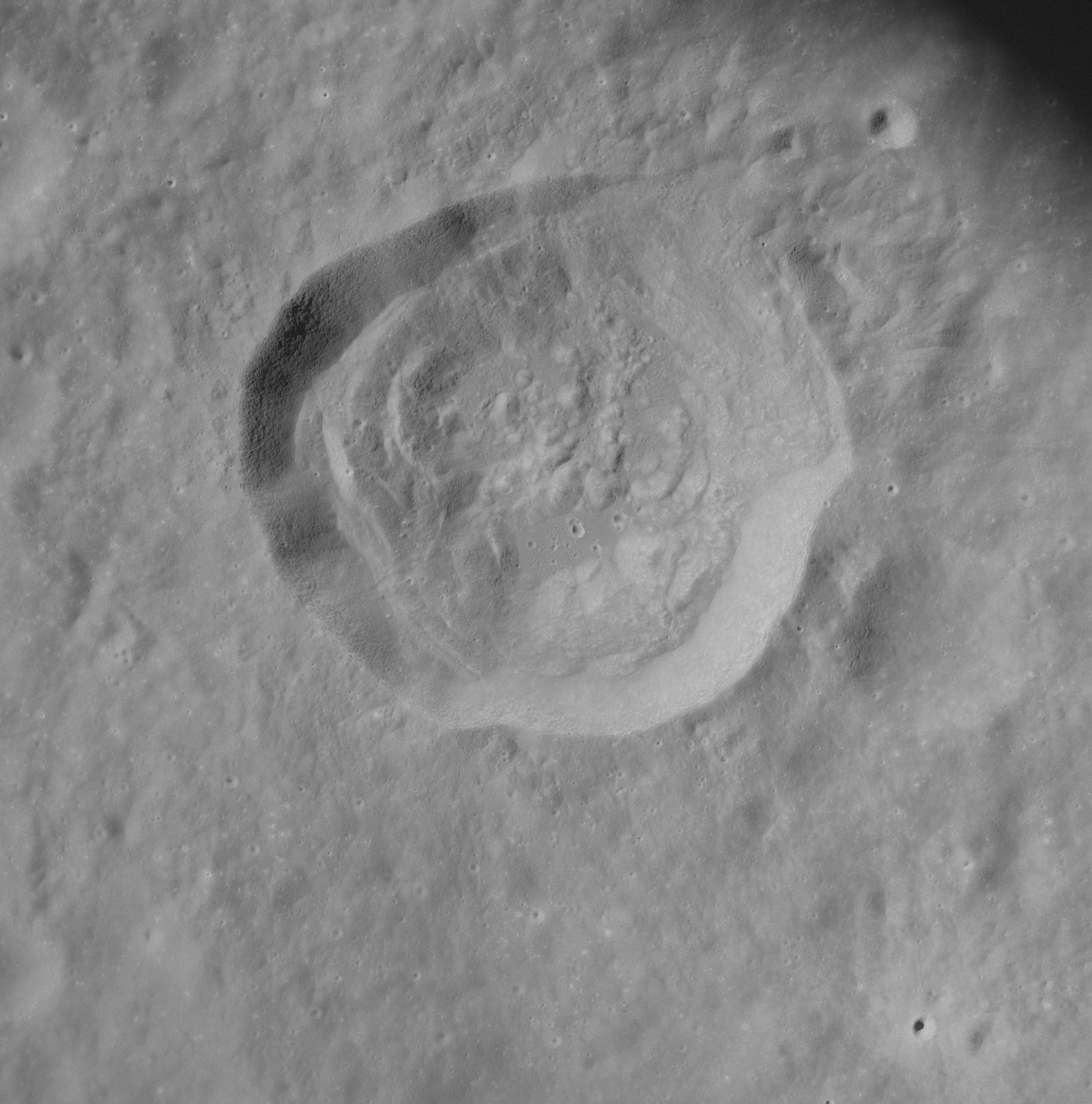 Satellite crater Pasteur D - Apollo-12 image AS12-56B-8308.